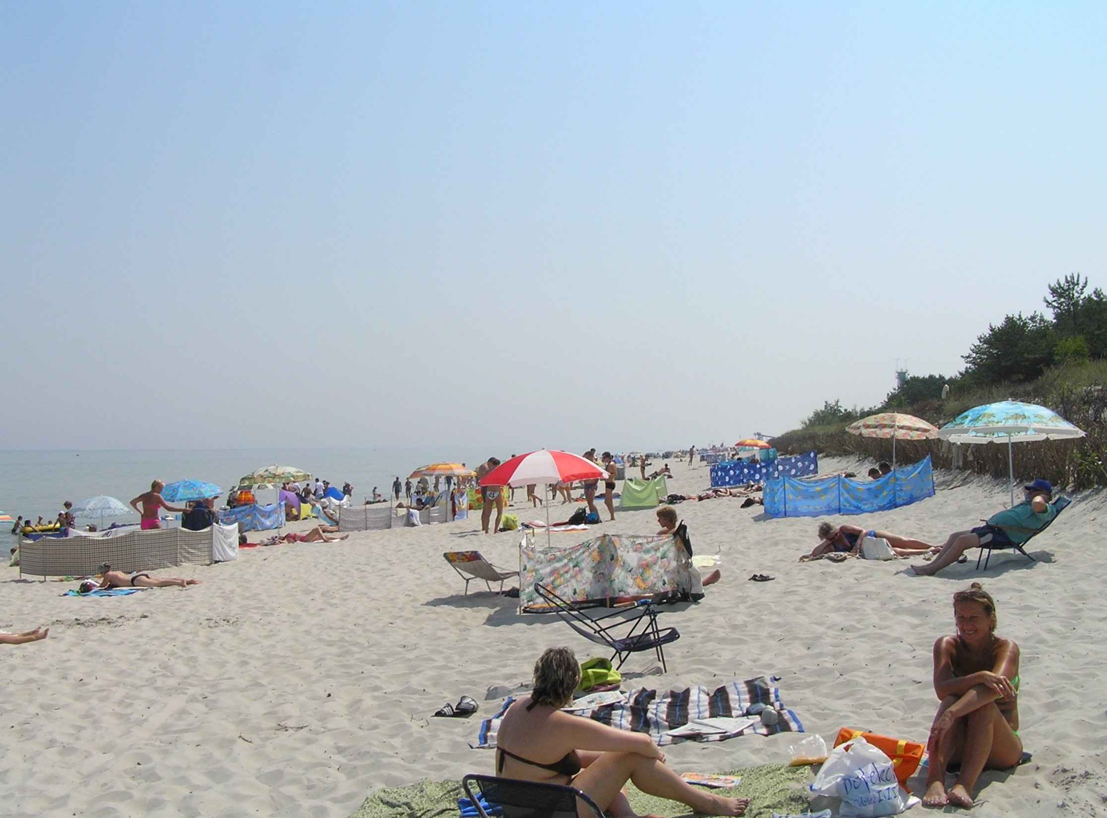 Beach in Jastarnia, Hel Peninsula